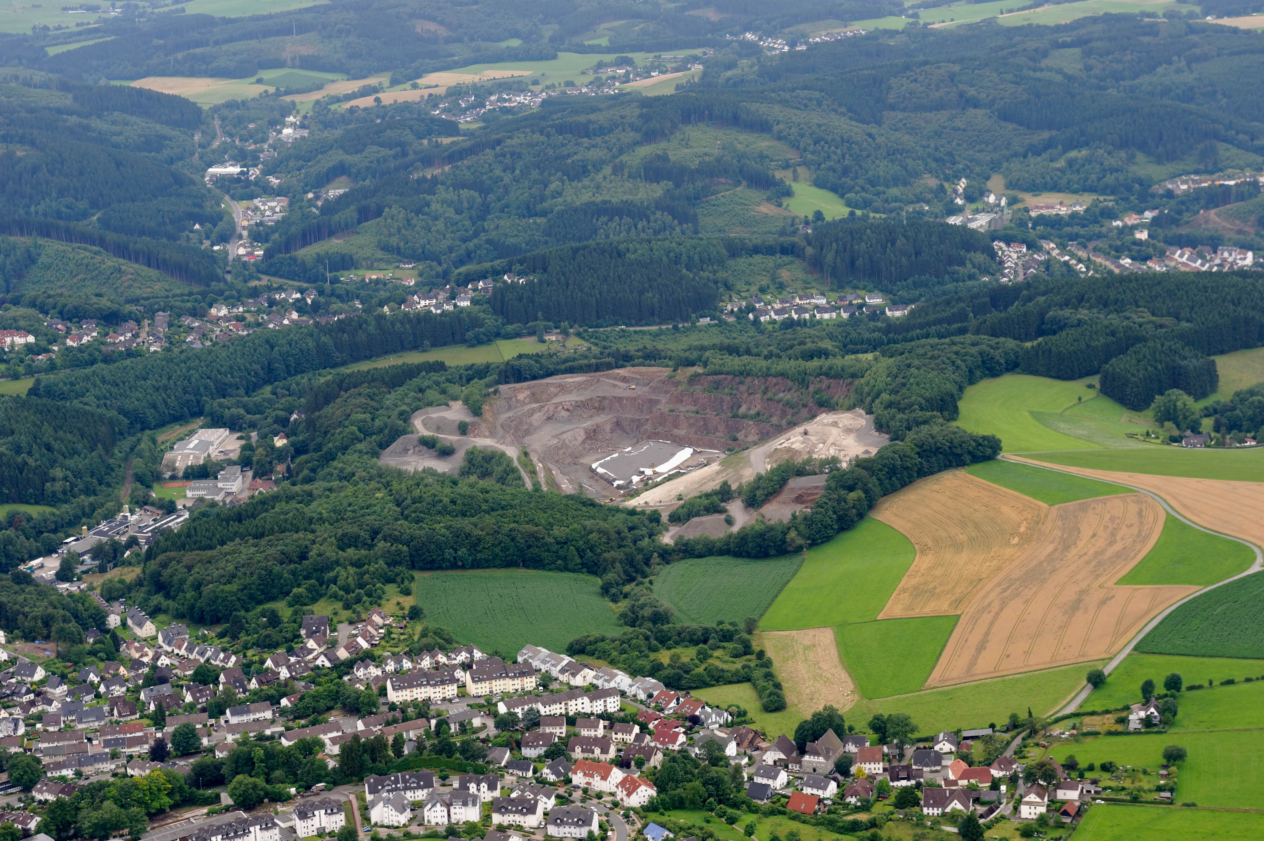 The making of this document was supported by the Community-Budget of Wikimedia Germany. Steinbruch Lösenbach beim Lüdenscheider Ortsteil Buckesfeld; Volmetal; rechts Brügge